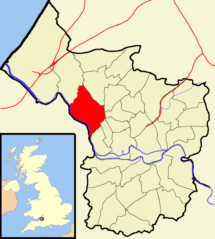 Stoke Bishop, shown within Bristol.